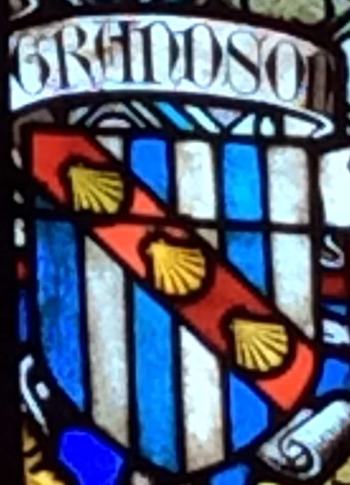 Grandson Coat of Arms